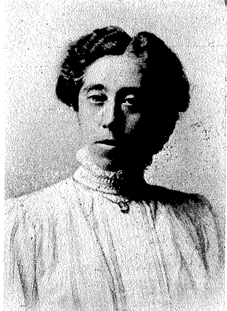 Winifred Boys-Smith, when she was just appointed as Professor of Home Science and Economics at Otago University. From the Otago Witness, 8 March 1911